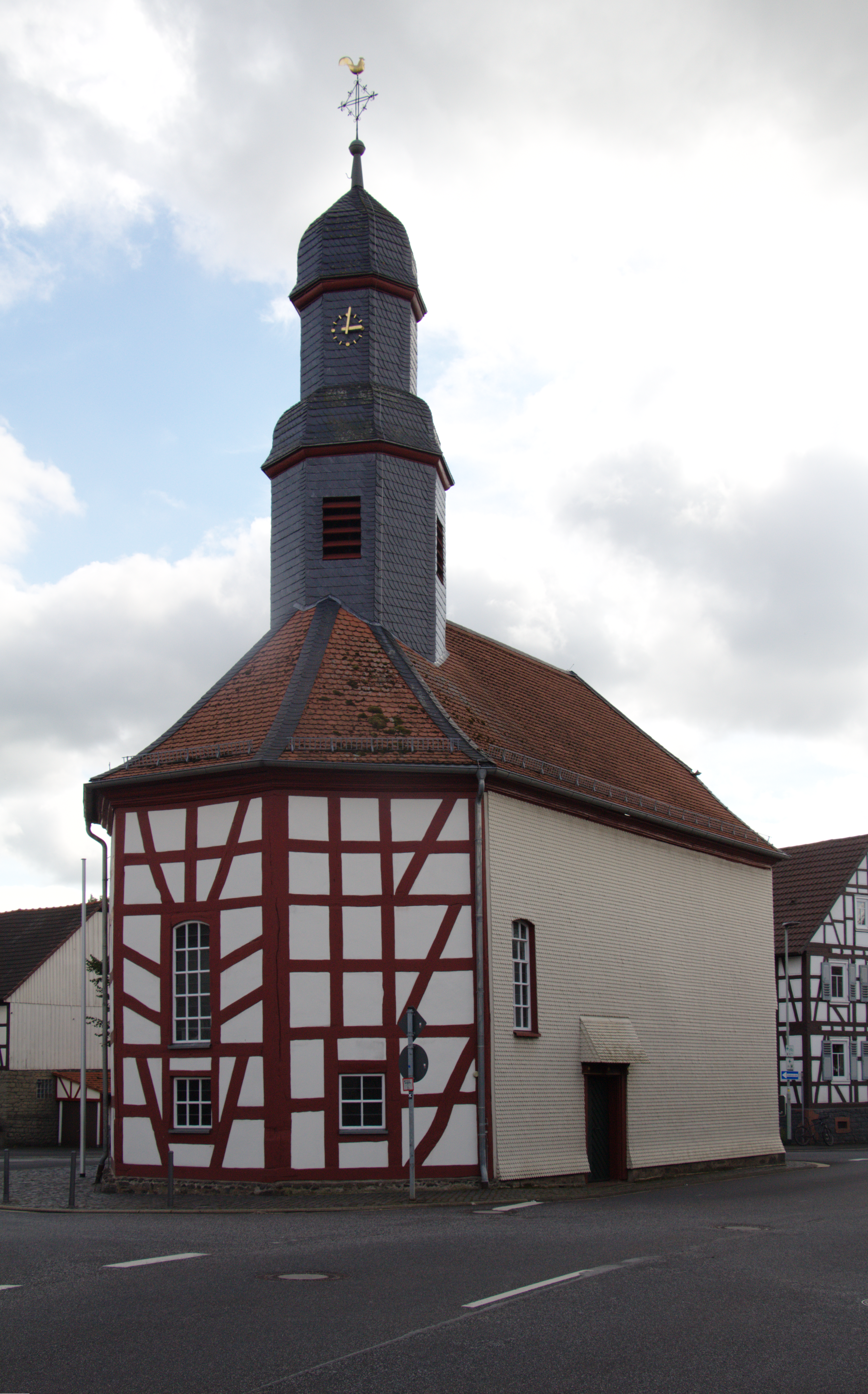 Protestant Church in Ruppertenrod , Muecke, Hesse, Germany